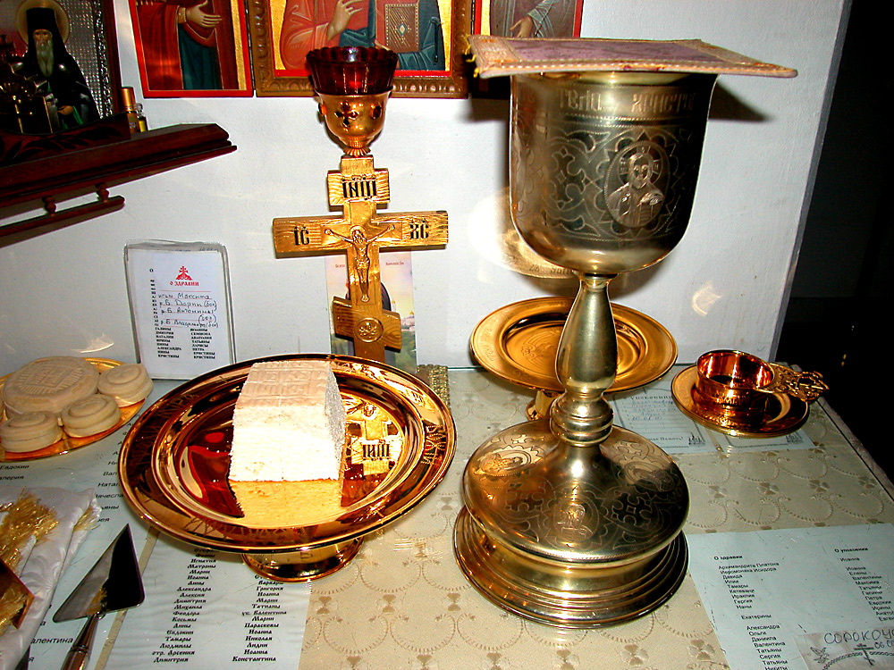 Liturgy of Saint James. Russian Orthodox Church in Dusseldorf. The Gifts (Bread and Wine) prepared during the Liturgy of Preparation before the beginning of the Divine Liturgy.